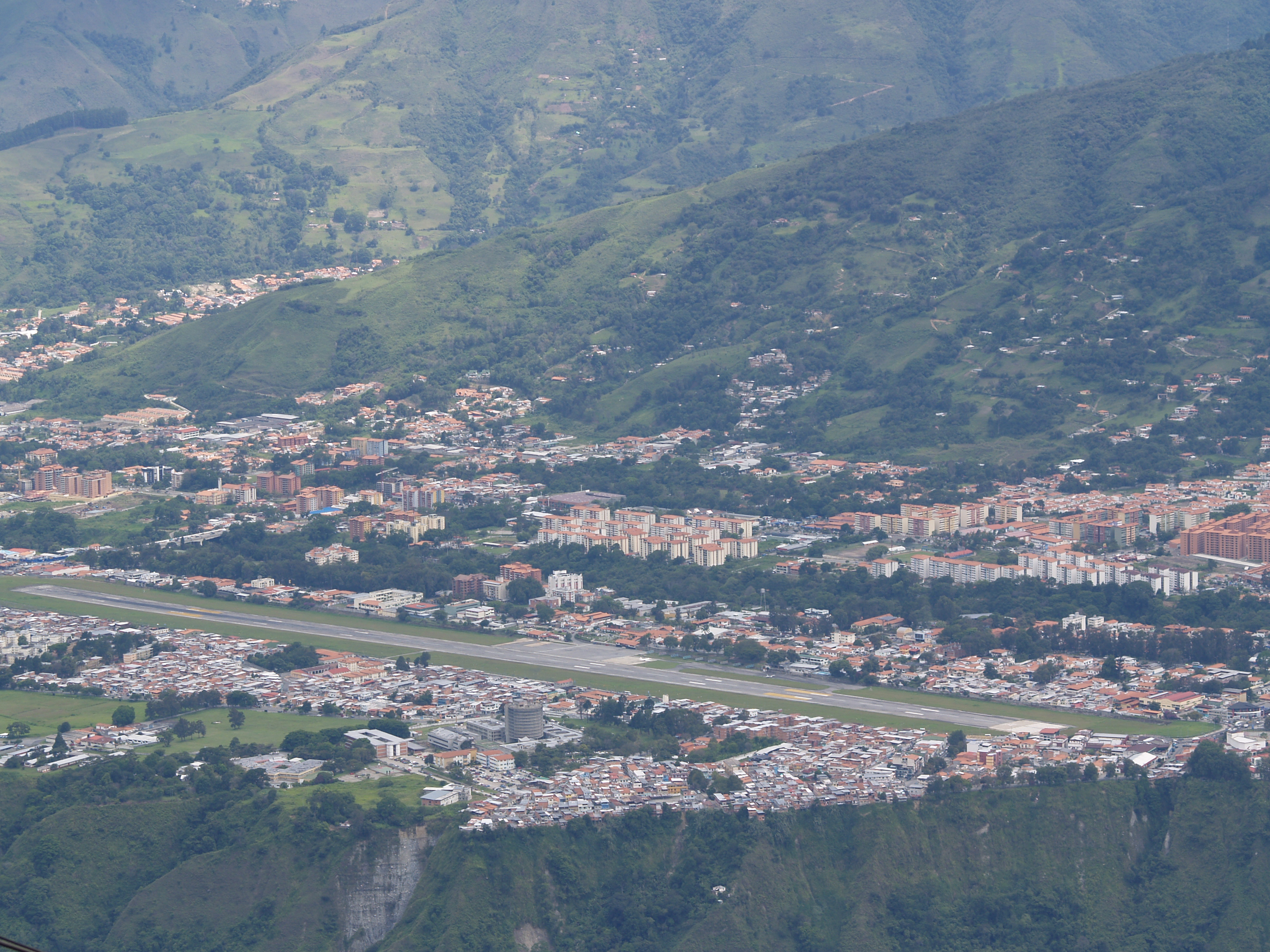 General view of the Merida's (Venezuela) airport Alberto Carnevali.